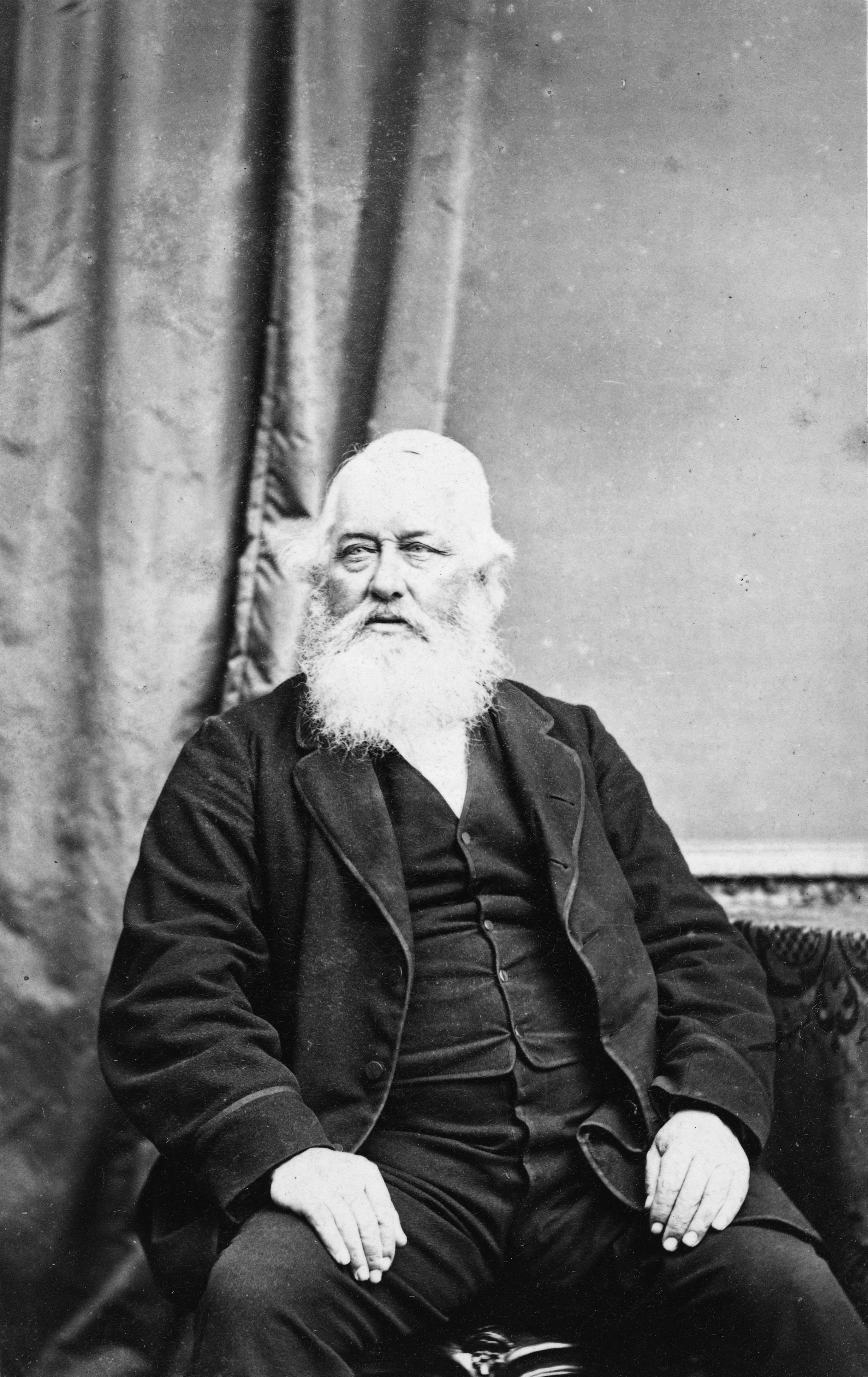 Seated portrait of John Cracroft Wilson, circa 1878.